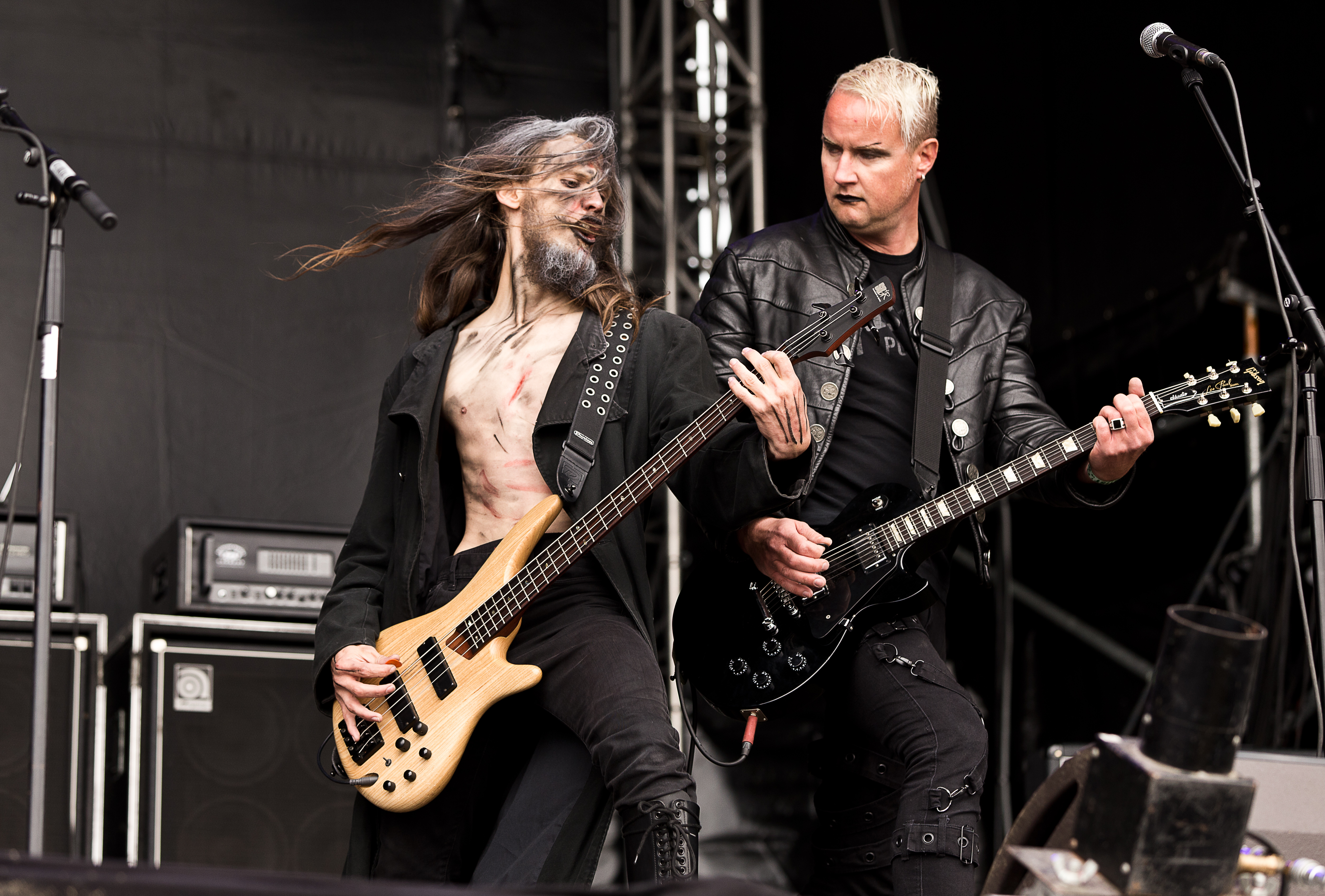 The German medieval folk band Ragnaröek at the Rockharz Open Air 2015 in Ballenstedt/Germany.